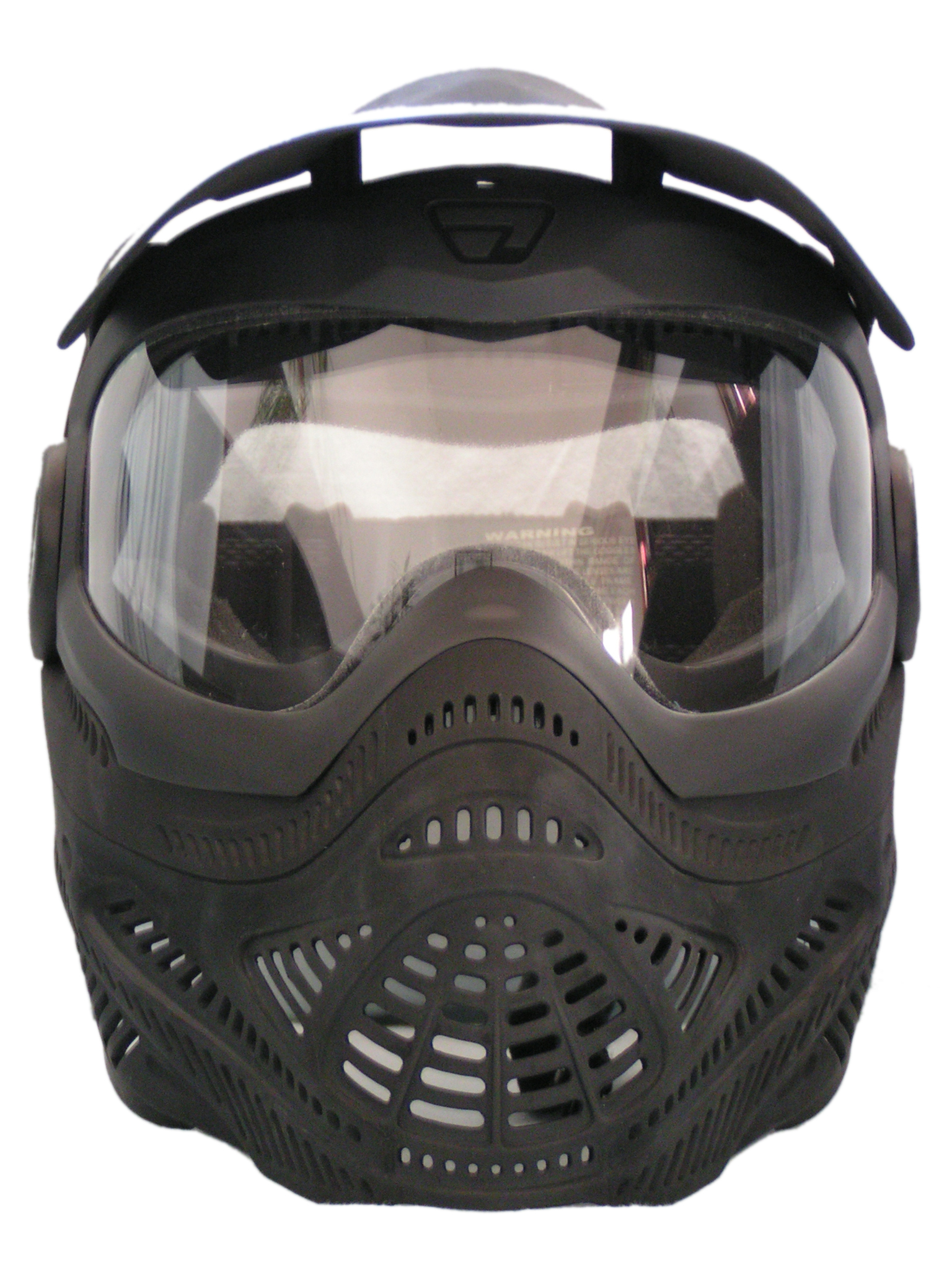 A paintball mask